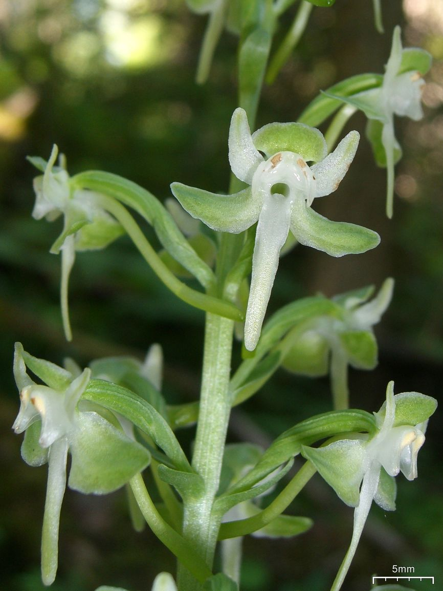 Platanthera orbiculata in Edgewood Blue, Wells Gray Park, BC, Canada